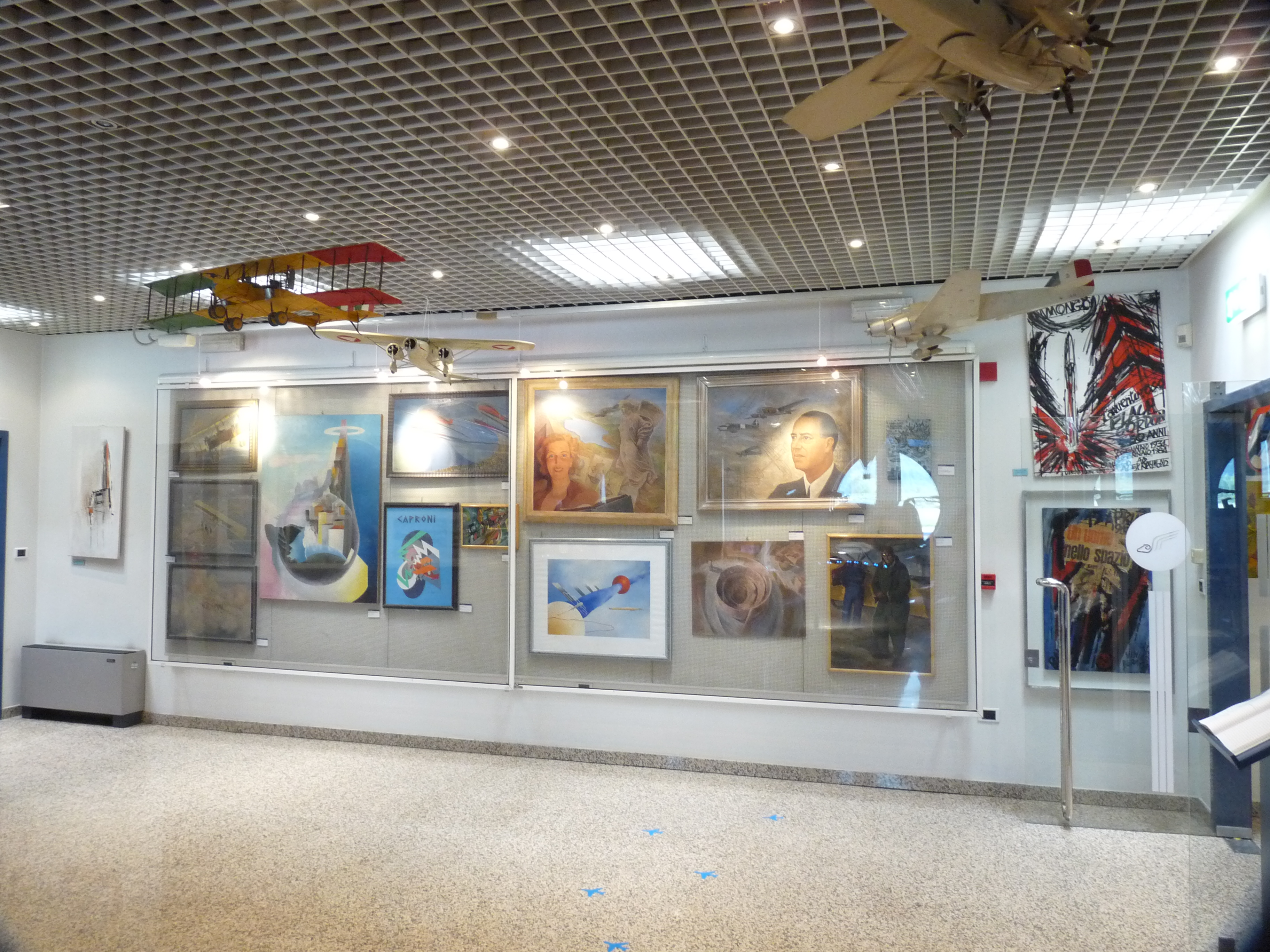 Trento (Italy): picture gallery at the entrance of the Museum of Aeronautics Gianni Caproni, with works by Fortunato Depero, Tato (Guglielmo Sansoni), Remo Wolf, etc.